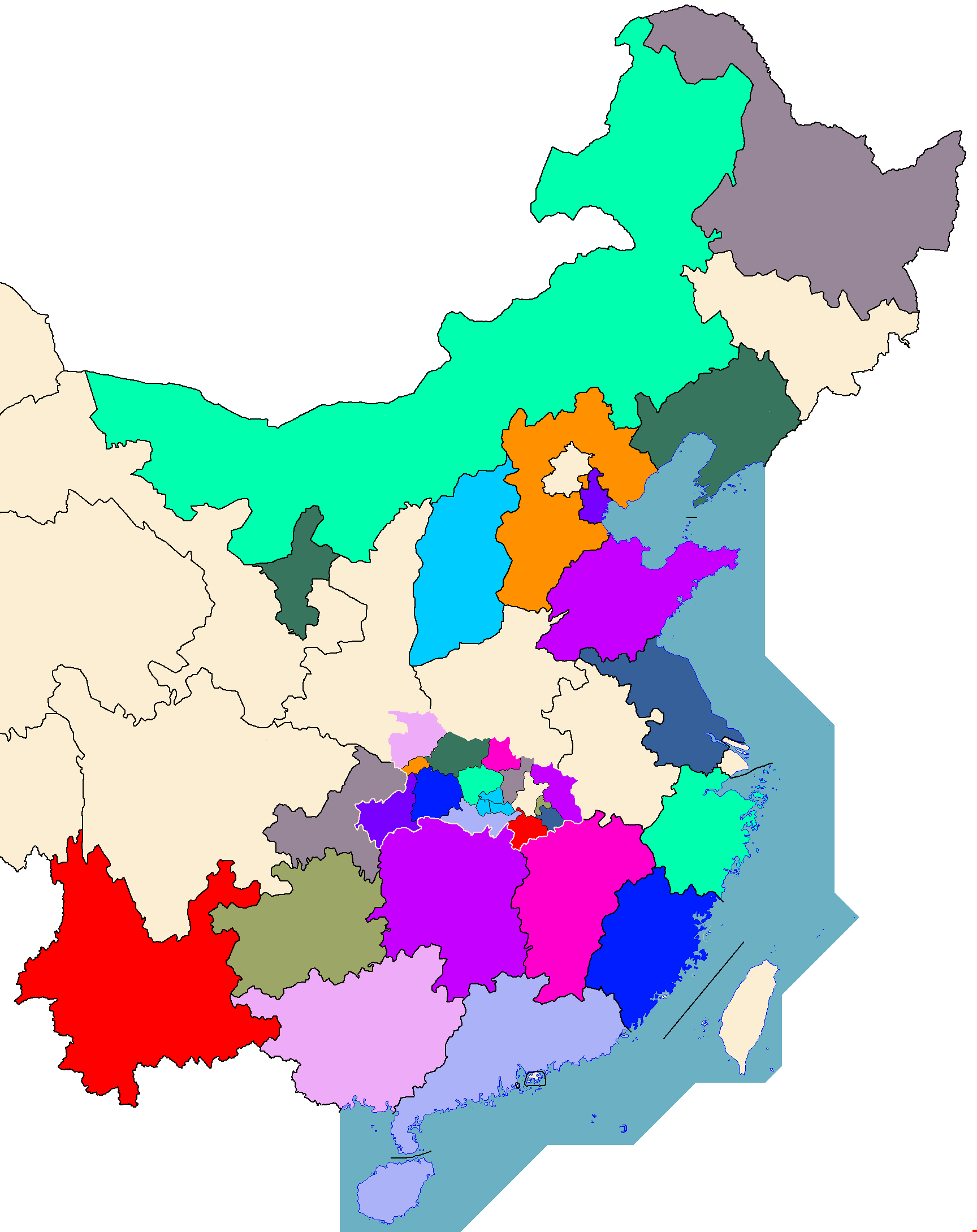 "One province helps one city" pairing assistances for Hubei province in the 2019-nCoV outbreak Tianjin-Enshi Hebei-Shennongjia Shandong、Hunan-Huanggang Shanxi-Xiantao、Tianmen、Qianjiang Yunnan-Xianning Liaoning、Ningxia-Xiangyang Chongqing、Heilongjiang-Xiaogan Guangxi-Shiyan Jiangsu-Huangshi Guizhou-Ezhou Fujian-Yichang Jiangxi-Suizhou Neimenggu、Zhejiang-Jinmen Guangdong、Hainan-Jingzhou This file was derived from: China Prefectural-level.png by ASDFGH